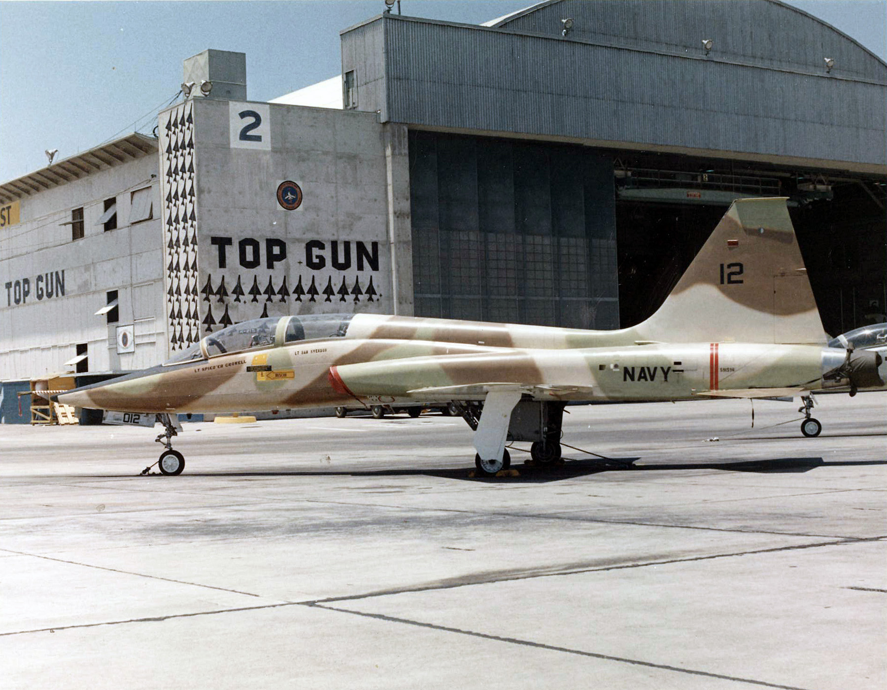 A U.S. Navy Northrop DT-38A Talon (USAF s/n 59-1596) assigned to the Navy Fighter Weapons School pictured in front of the TOPGUN hangar at Naval Air Station Miramar, California (USA), in 1974. The Talon was one of the aircraft types employed as an aggressor for training at the school. Note the silhouettes of MiG aircraft shot down during the Vietnam War painted on the hangar exterior.This aircraft was later converted to a QT-38A which included ECM function. It was retires due to damage on 20 December 1980.